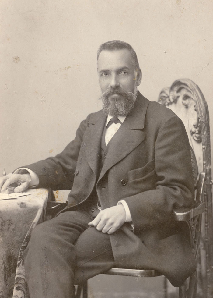 Meshkov Nikolay Vasilyevich